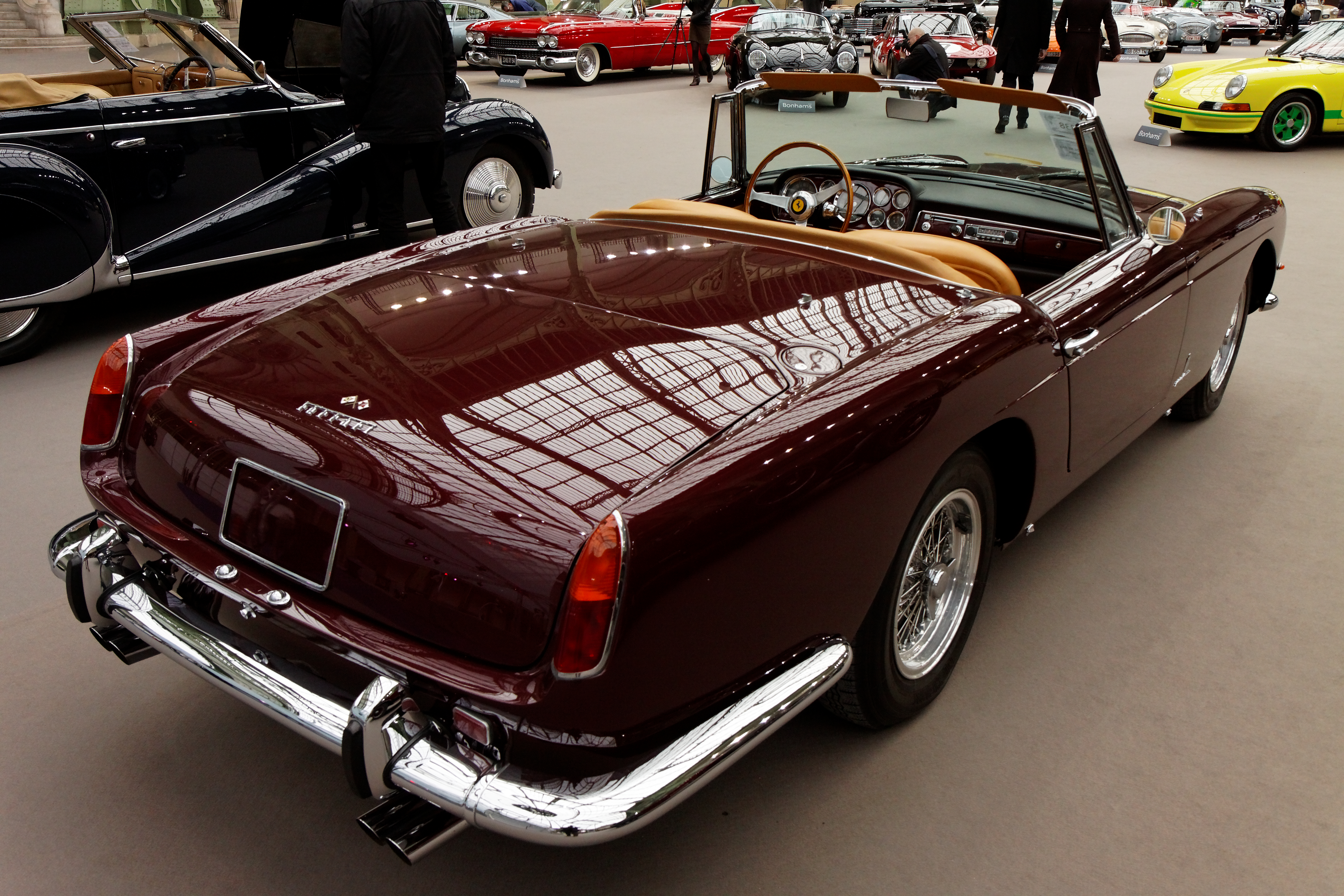 The making of this document was supported by Wikimédia France. (Submit your project!)